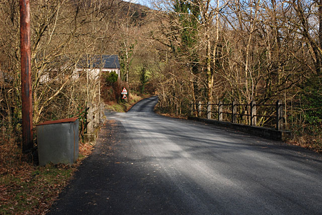 Bridge over the Nant Ceiswyn Carrying the Aberangell to Aberllefenni mountain road.